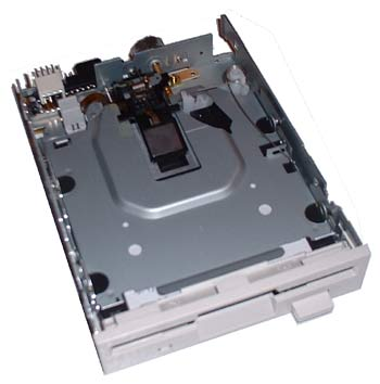 Floppy disk drive, top, with cover removed)